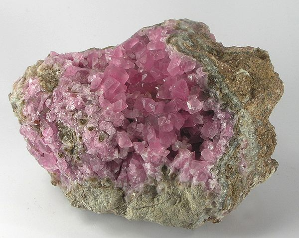 Calcite (Var.: Cobaltoan Calcite) Locality: Bou Azzer, Bou Azzer District, Tazenakht, Ouarzazate Province, Souss-Massa-Draâ Region, Morocco (Locality at ) Size: 12.4 x 8.8 x 7.2 cm. This largish chunk of matrix is richly covered with cobaltoan calcite. Some of the crystals are sheared off at the level of the matrix, but one three-inch area is full of superb, bright pink, translucent, BIG crystals to almost a centimeter! They have perfect form and pyramidal terminations. They almost look trigonal, which would be totally bizarre, but there are in fact 6 faces around the sides if you look closely - 3 of them are small and appear almost as bevels.